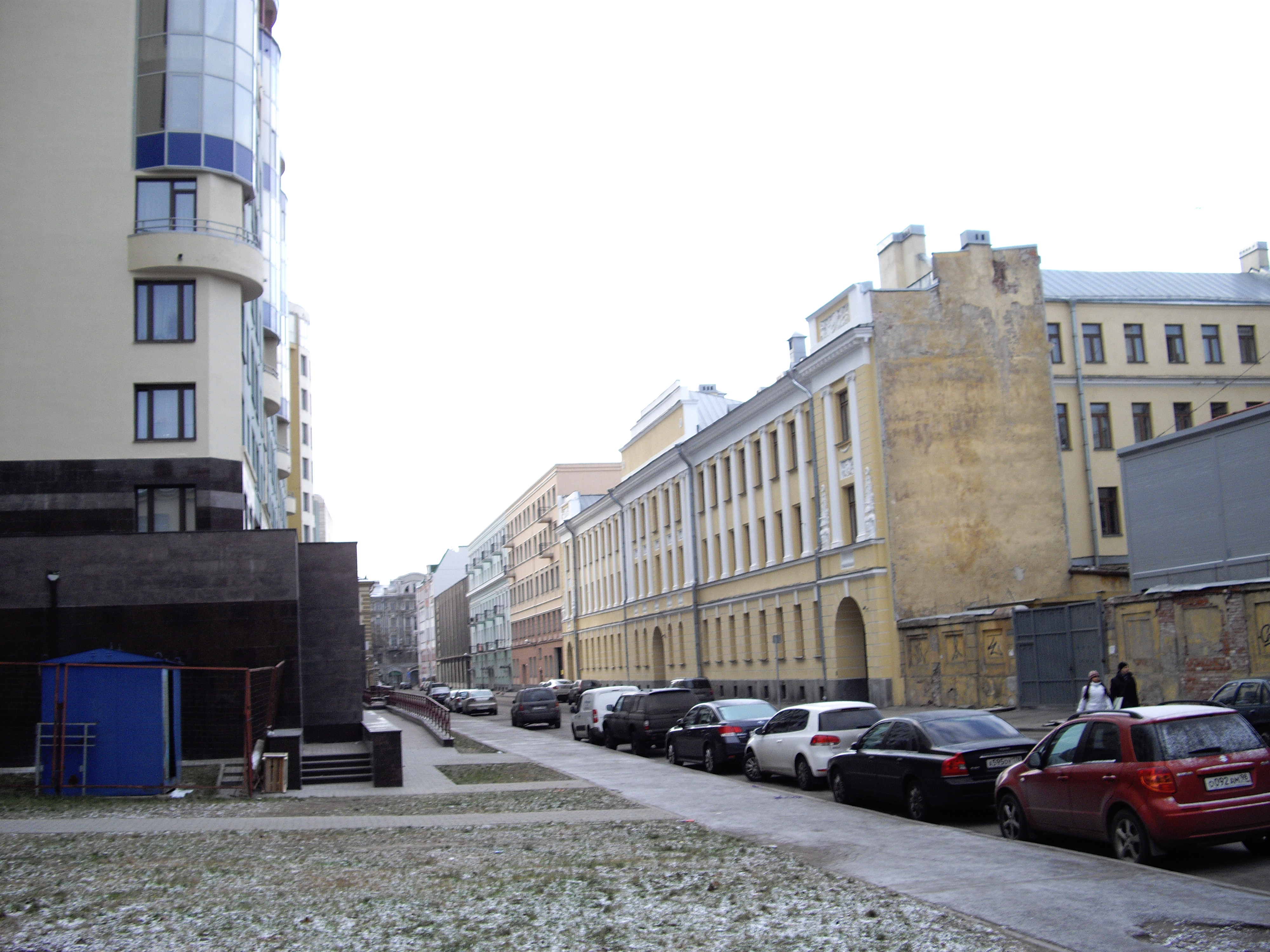 Divenskaya Street in Saint Petersburg